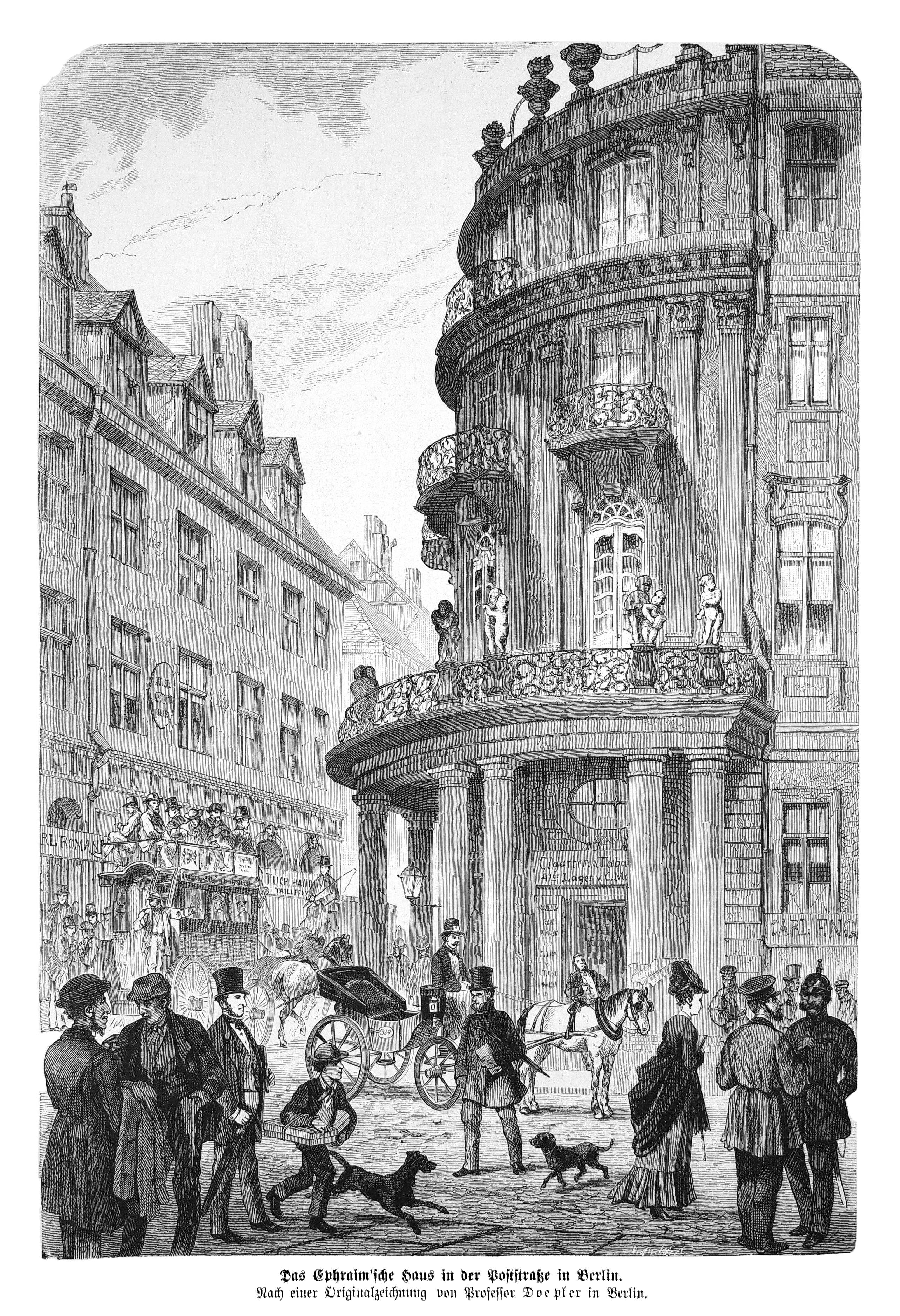 Image from page 778 of book Die Gartenlaube, 1874.